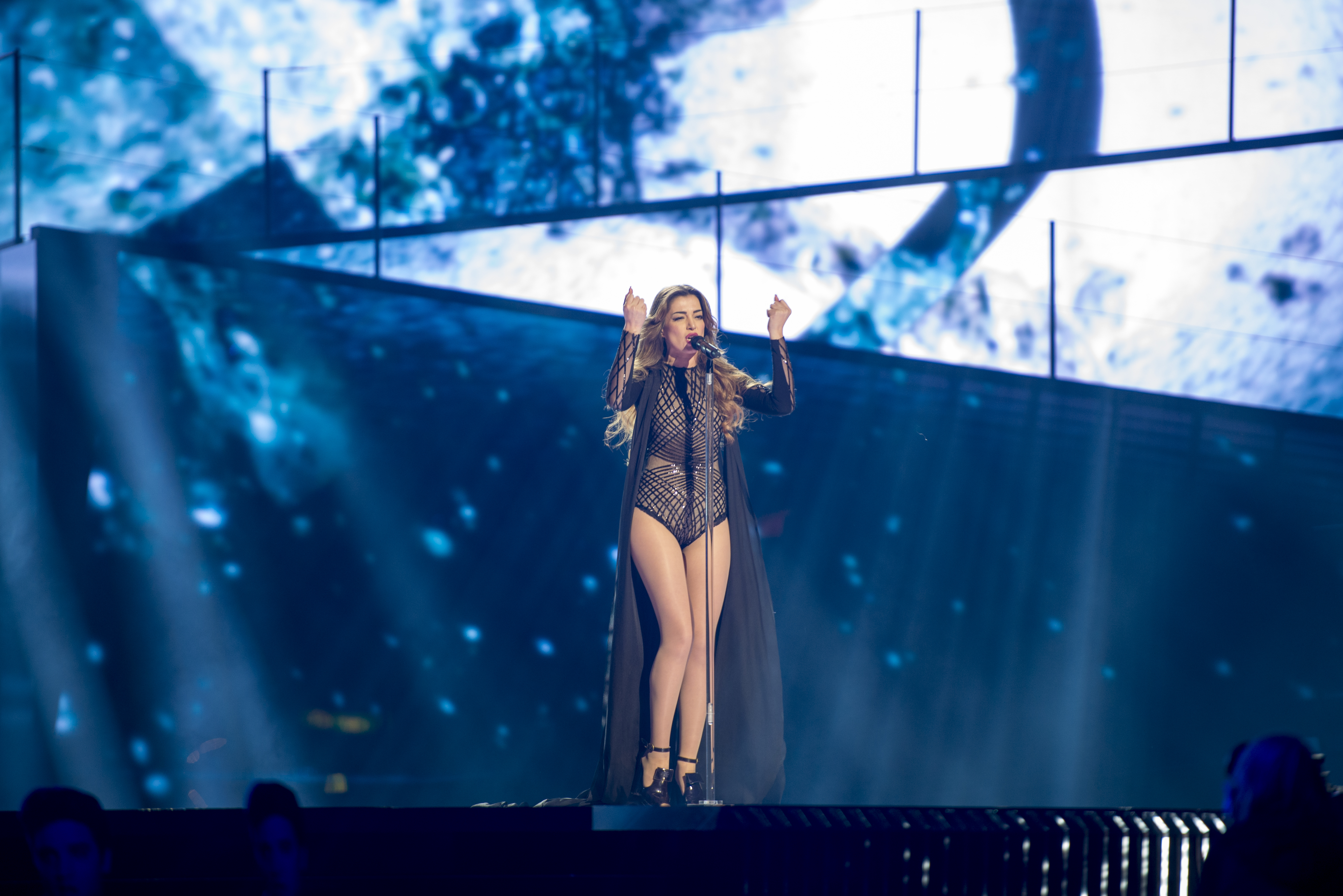 Iveta Mukuchyan representing Armenia with the song "LoveWave" during a rehearsal before the first semi final of the Eurovision Song Contest 2016 in Stockholm. (Help translate this text)